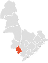 Map of Iveland in Aust-Agder, Norway